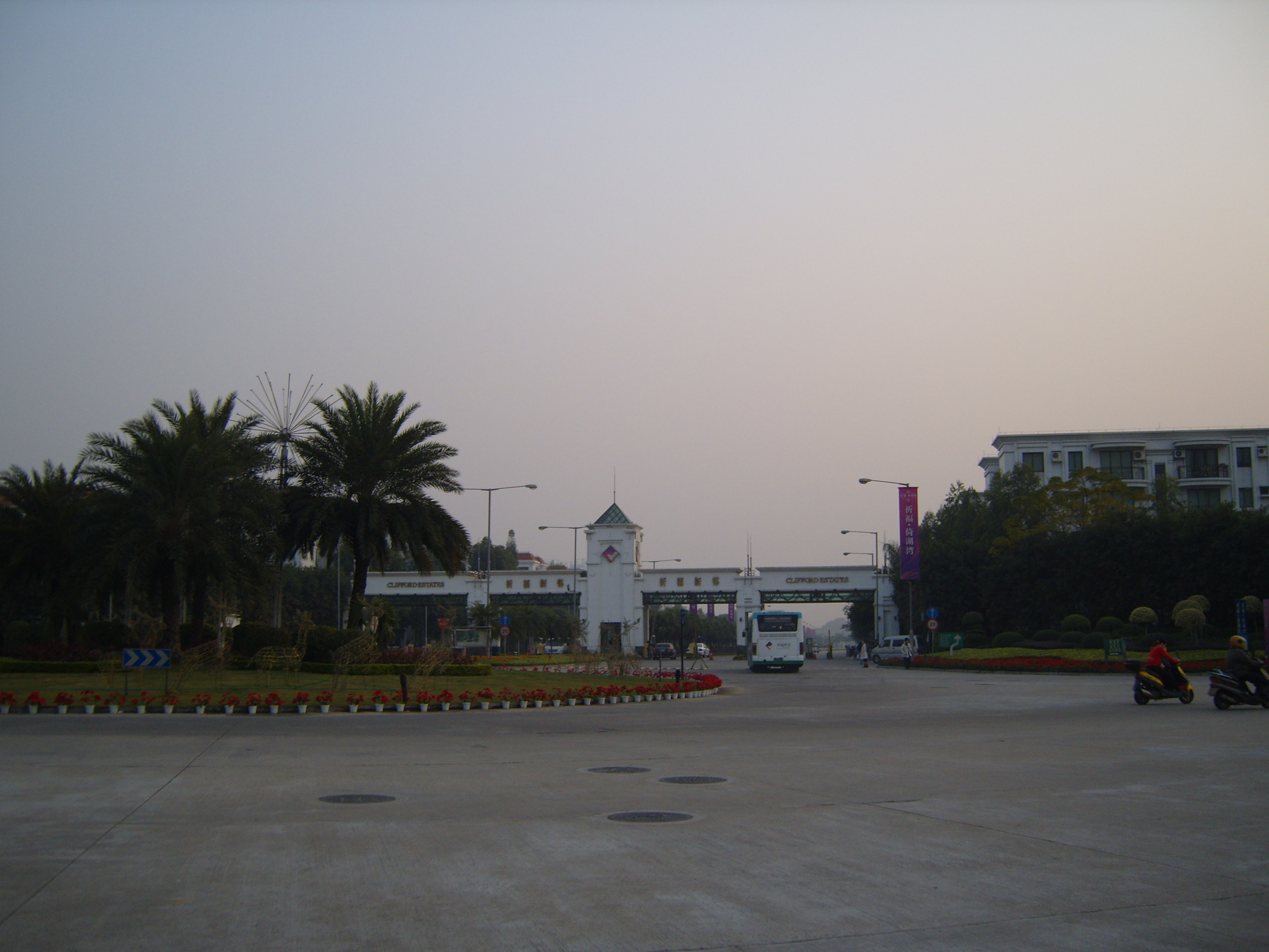 祈福大道正門 (Main Door of Clifford Estate)